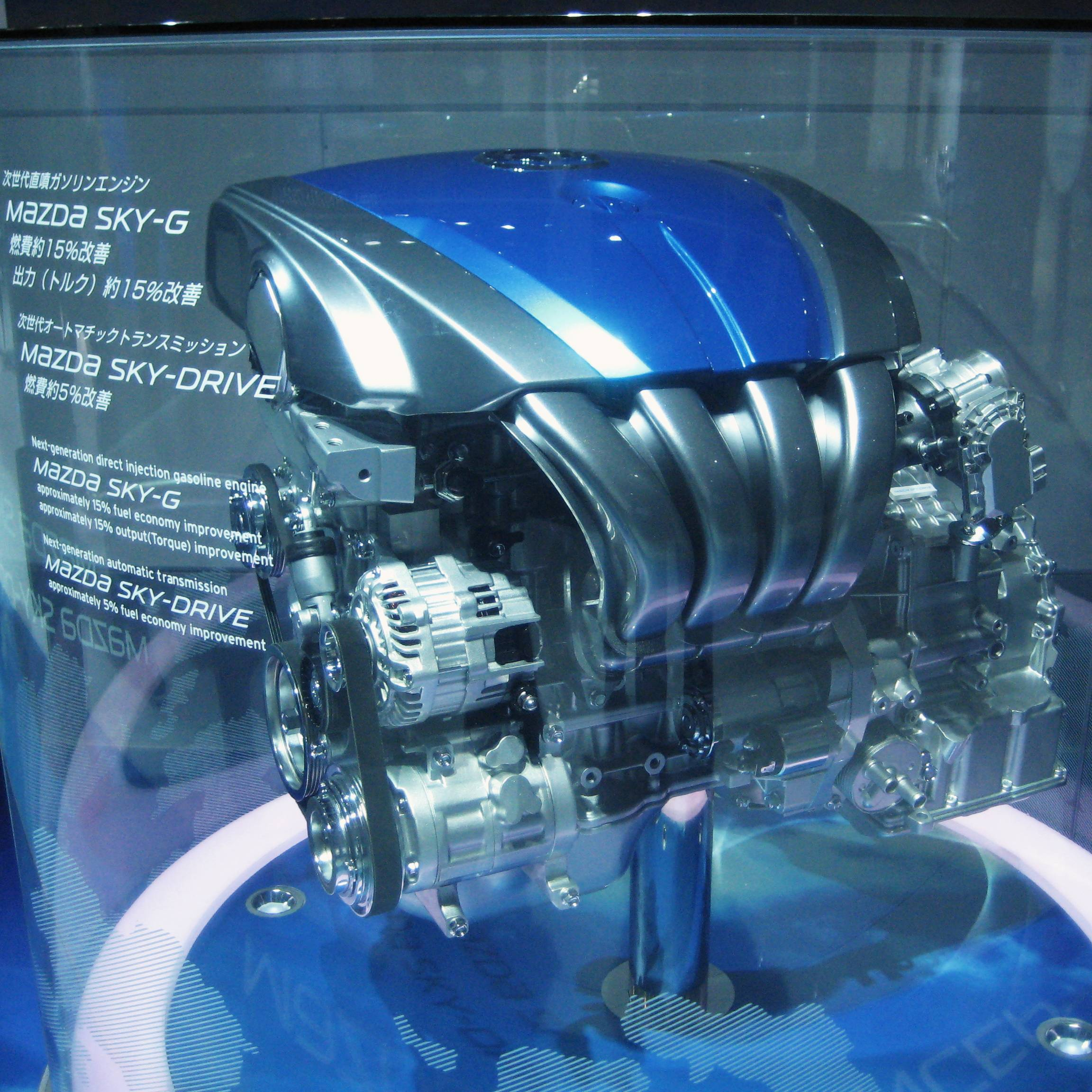 Mazda SKY-G (next-generation direct injection gasoline engine) in Tokyo Motor Show 2009.